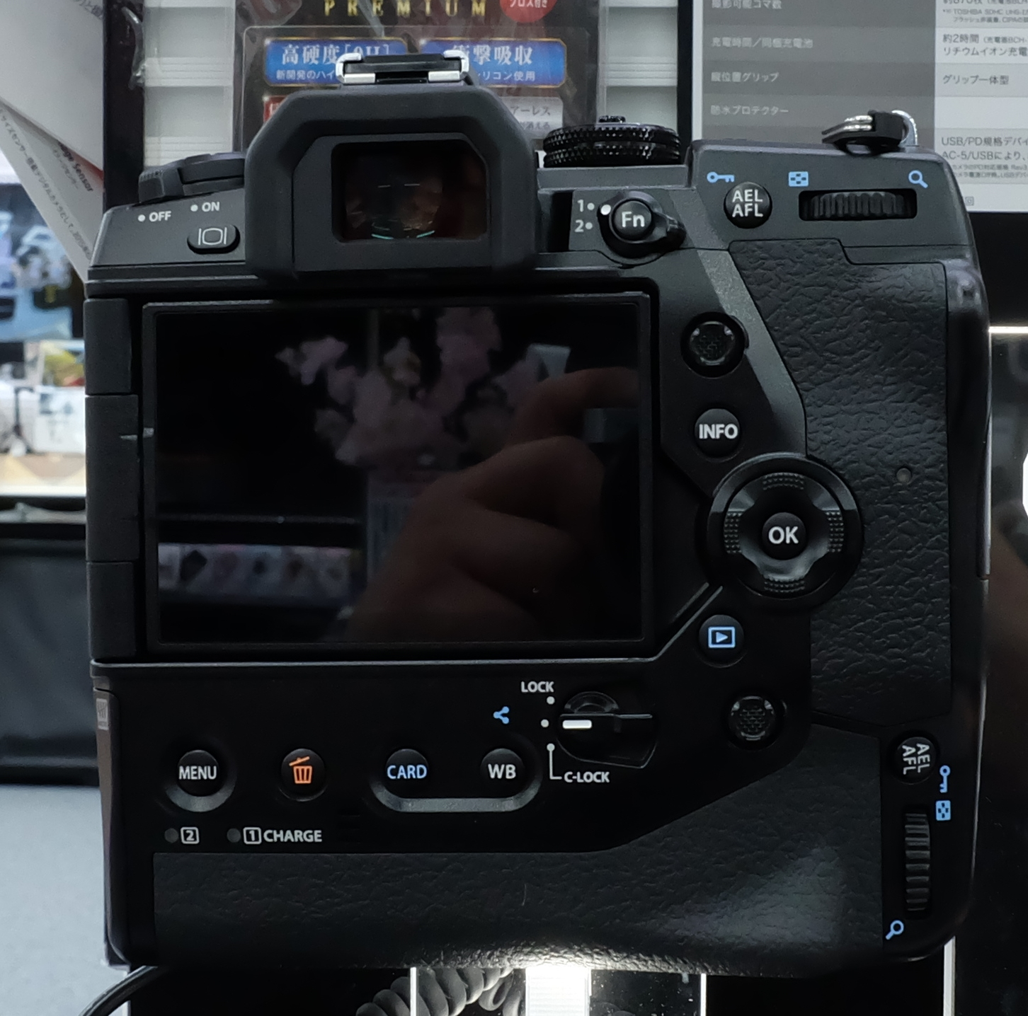 Olympus OM-D E-M1X (photo taken at Yodobashi Camera)